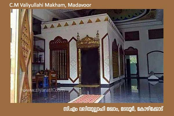 The holy Shrine of Saint C.M Valiyy